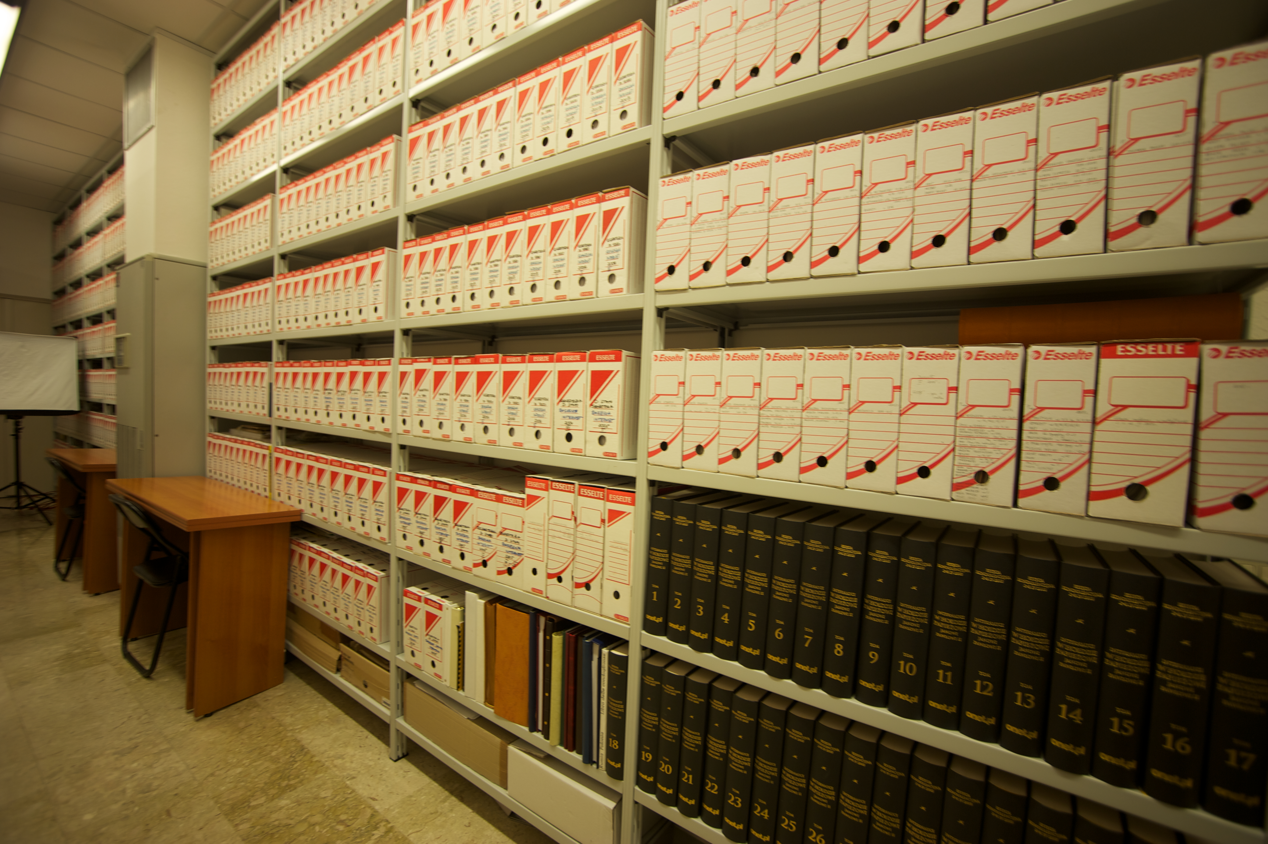 The John Paul II Pontificate’s Center for Documentation and Research in Rome